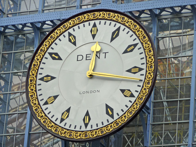 Clock, St Pancras Station, London Close up view of the refurbished station clock at St Pancras.